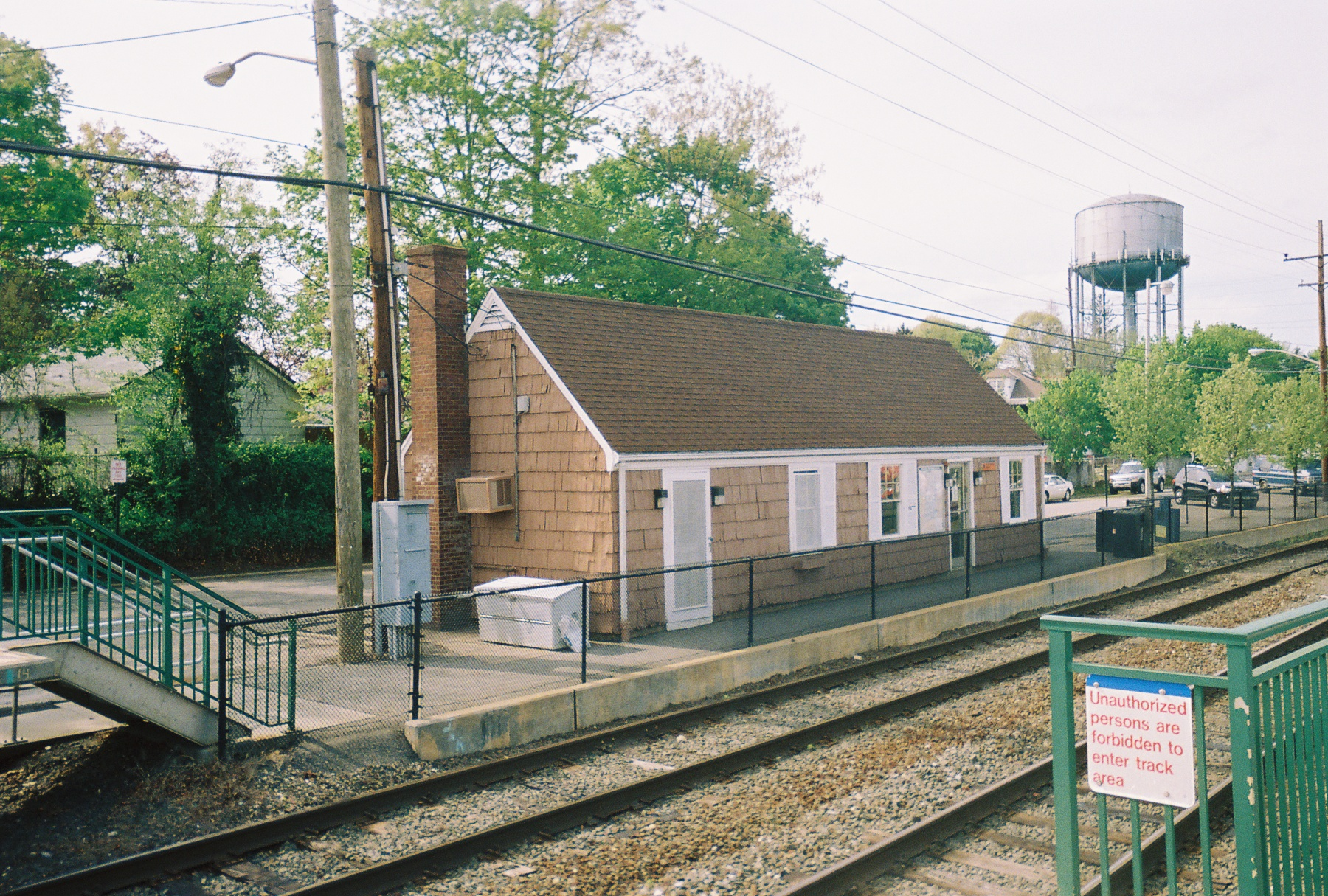 The 1961-built Glen Head (LIRR station) house taken from one platform across the tracks. Not exactly the old victorian station, but hey, at least it's an existing station house.